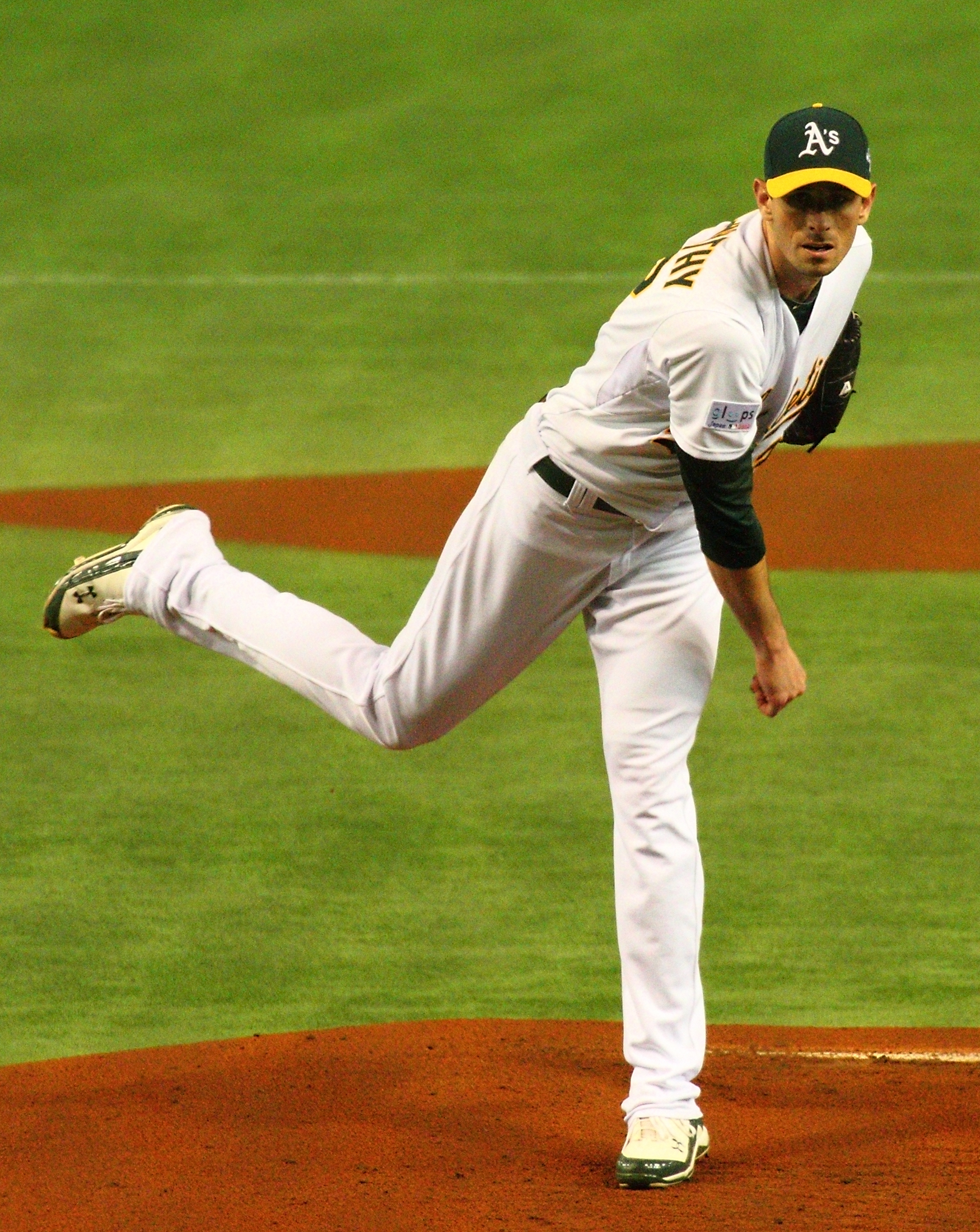 Brandon McCarthy